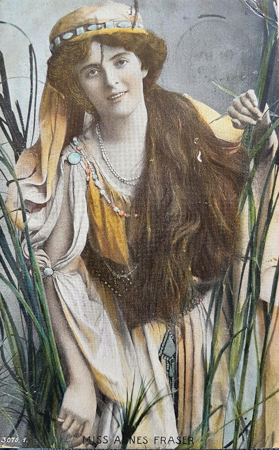 Postcard of the actress Agnes Fraser (1876-1968) c1905